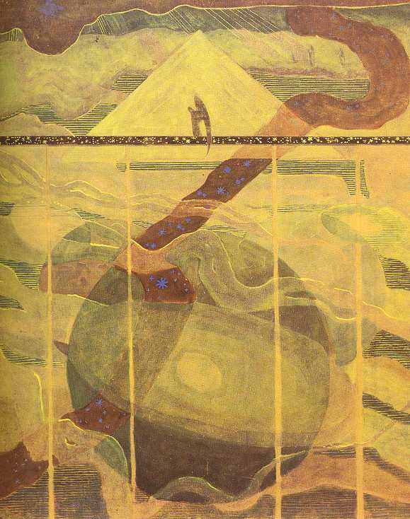 Painting Andante (part two) in planned four-painting cycle Žvaigždžių sonata (Sonata of the Stars). Only two paintings were completed.